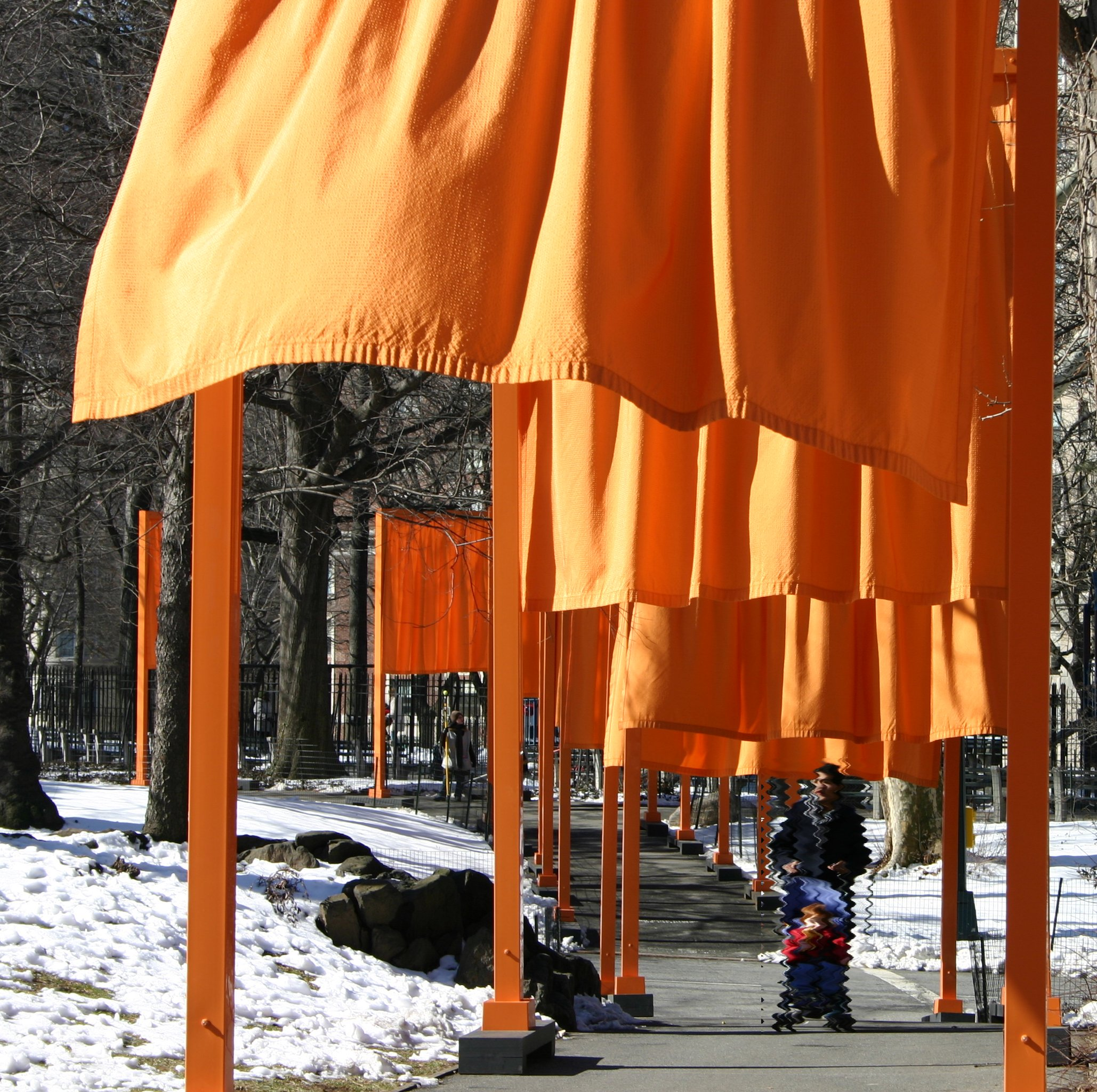 The Gates This is at the North end of the Great oval in New York city's Central Park,facing west. The people in the image were distored slightly so that they would not be recognizable. The black fence in the back ground is Spector playground, the brick buildings are on Central Park West.